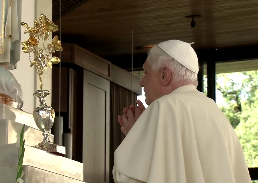 Benedict XVI awards a Golden Rose to the Sanctuary of Our Lady of Fatima, in Portugal, on 12 May 2010.